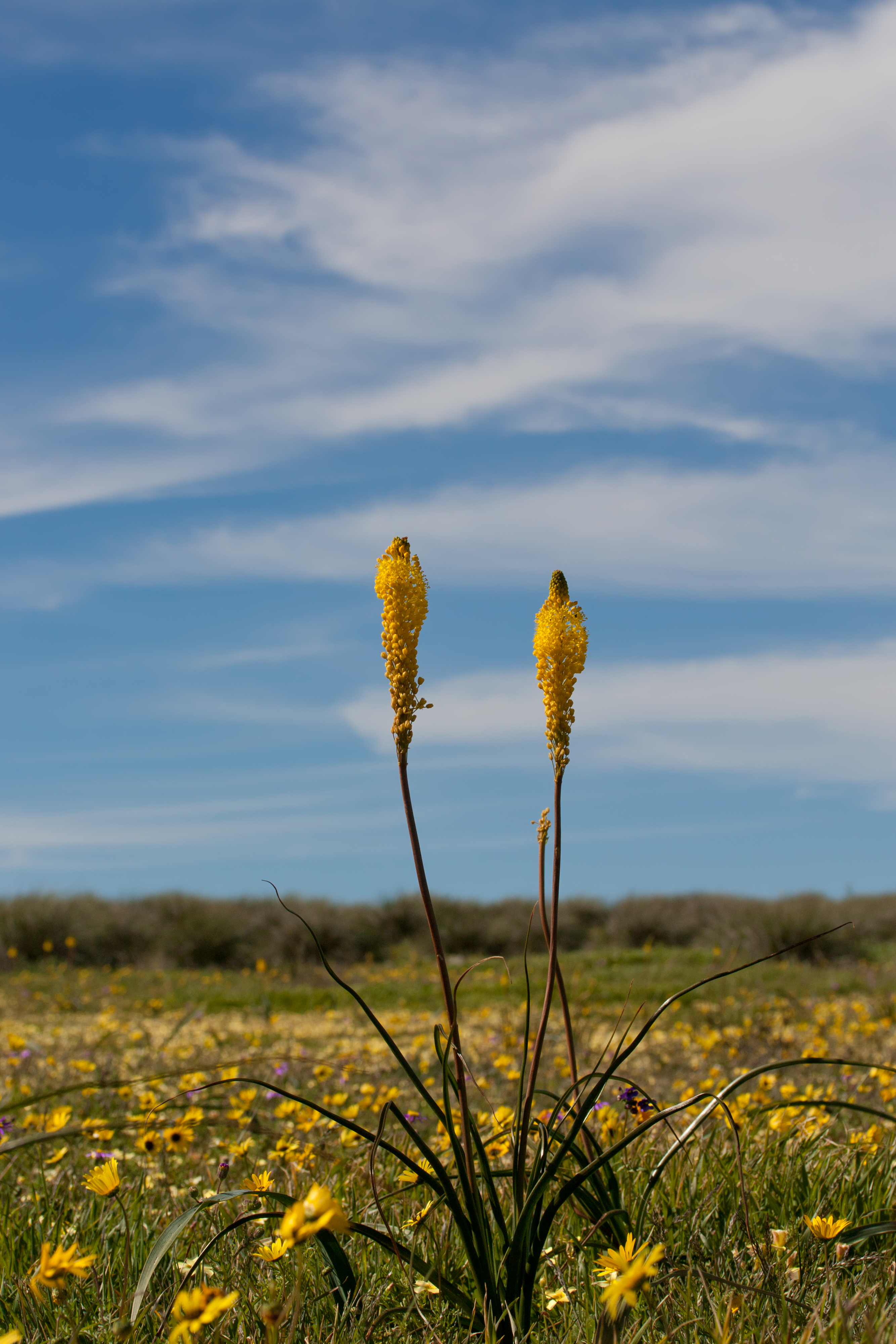 Bulbinella elegans photographed in the Hantam National Botanical Garden, Nieuwoudtville, South Africa. Identification is not positive; may instead be Bulbinella latifolia ssp latifolia. Coordinates are not exact.